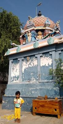 Thanjavur Kurichistreet subramaniar temple தஞ்சாவூர் குறிச்சித்தெரு முருகன் கோயில்